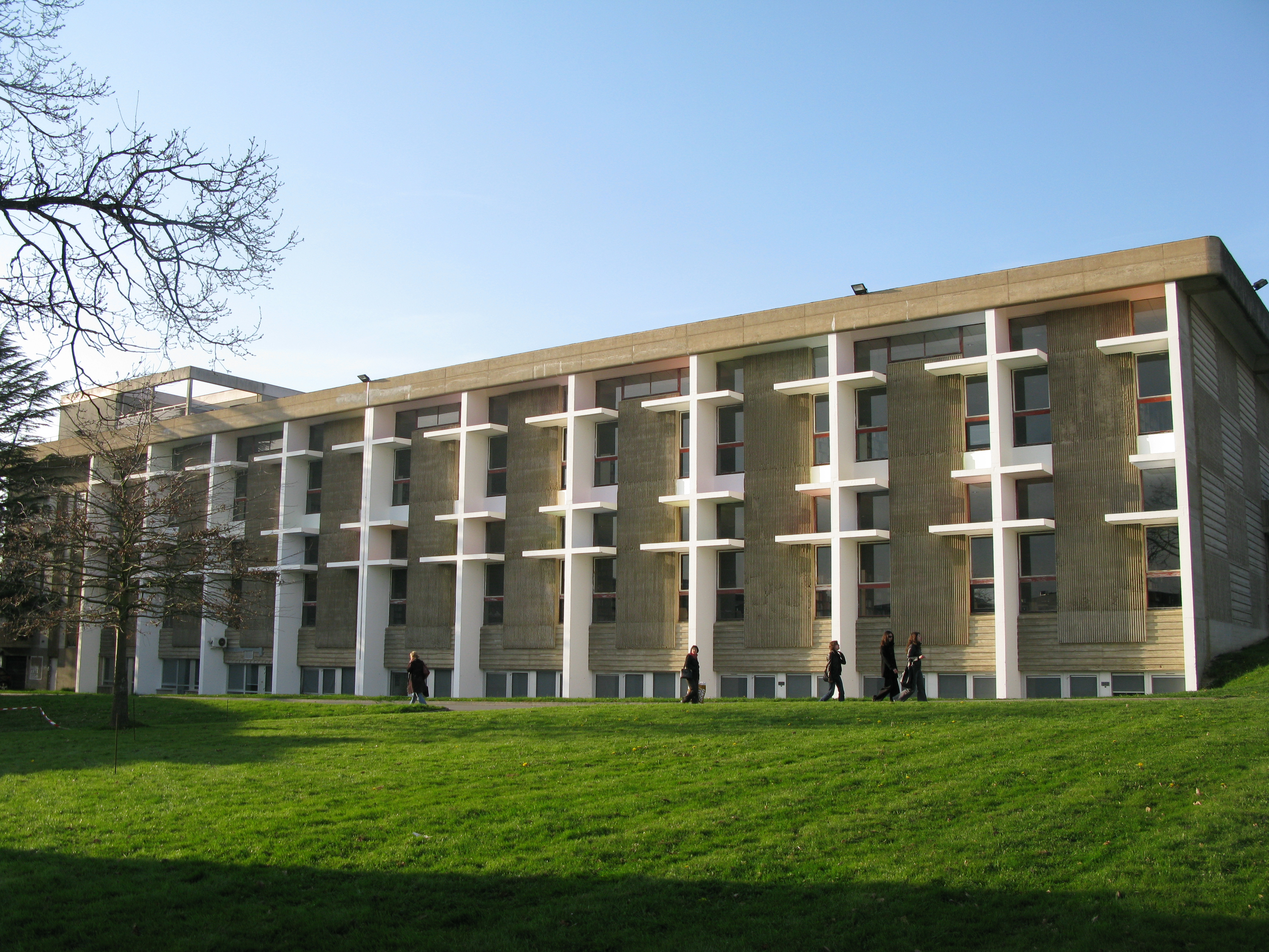 South view of Rennes II University's central library, Rennes, France.